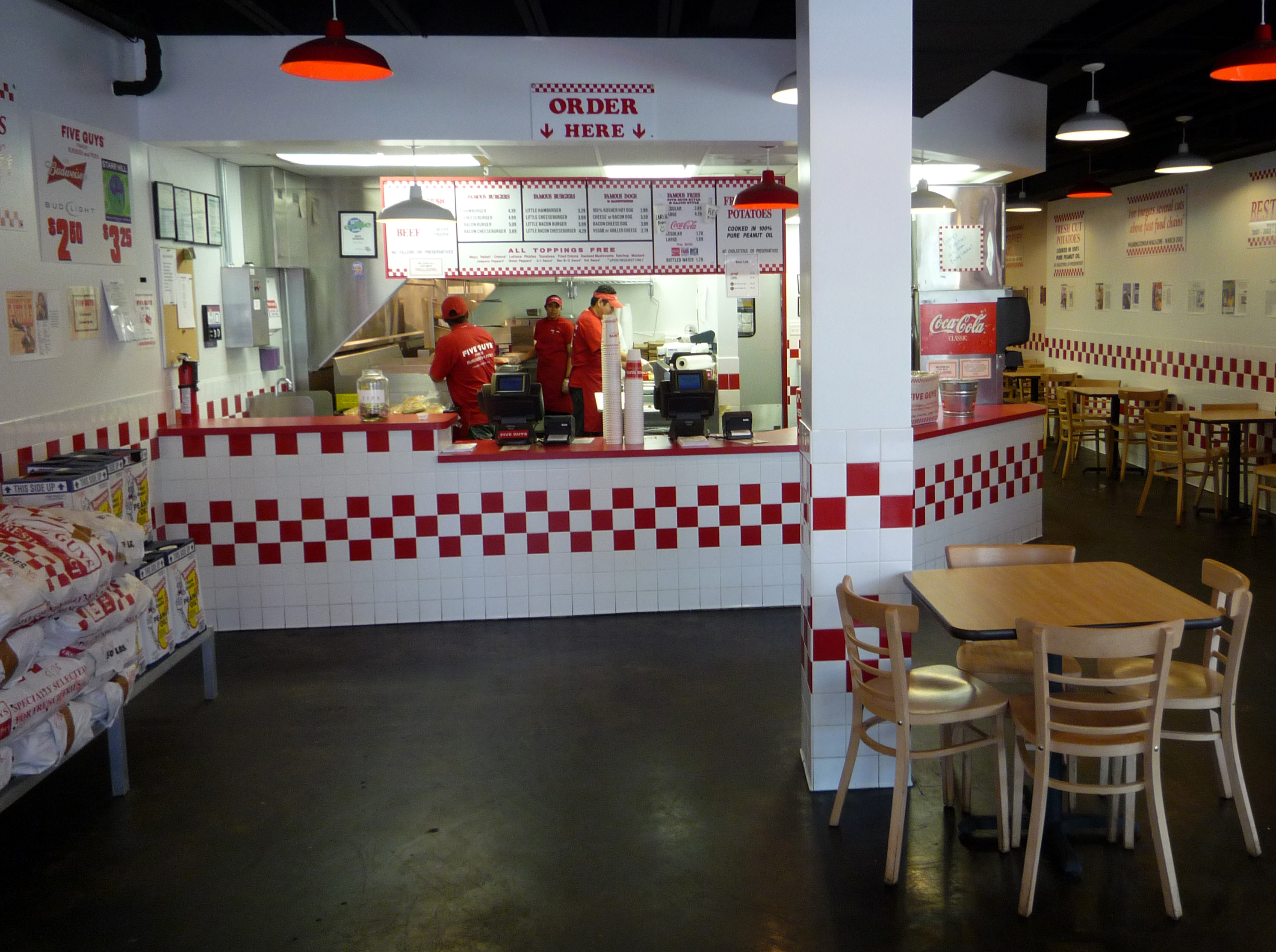 Interior of a Five Guys restaurant in Charlottesville, Virginia.